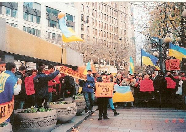 Presidential Election in Ukraine